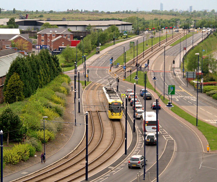 Metrolink Bombardier M5000 tram number 3091 travelling along Lord Sheldon Way as it approaches the Ashton terminus (although the destination display has already been re-set to read "Eccles", ready for the return journey). Viewed here from the roof car park at the IKEA store, Lord Sheldon Way (A6140) is the town's north western bypass across Ashton Moss. The road is named after Baron Sheldon who, as Robert Sheldon, was Ashton's Member of Parliament between 1964 and 2001 and long-serving chairman of the House of Commons Public Accounts Committee.